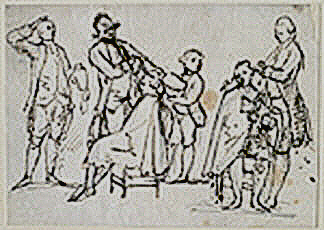 Manuel Tremulles' picture